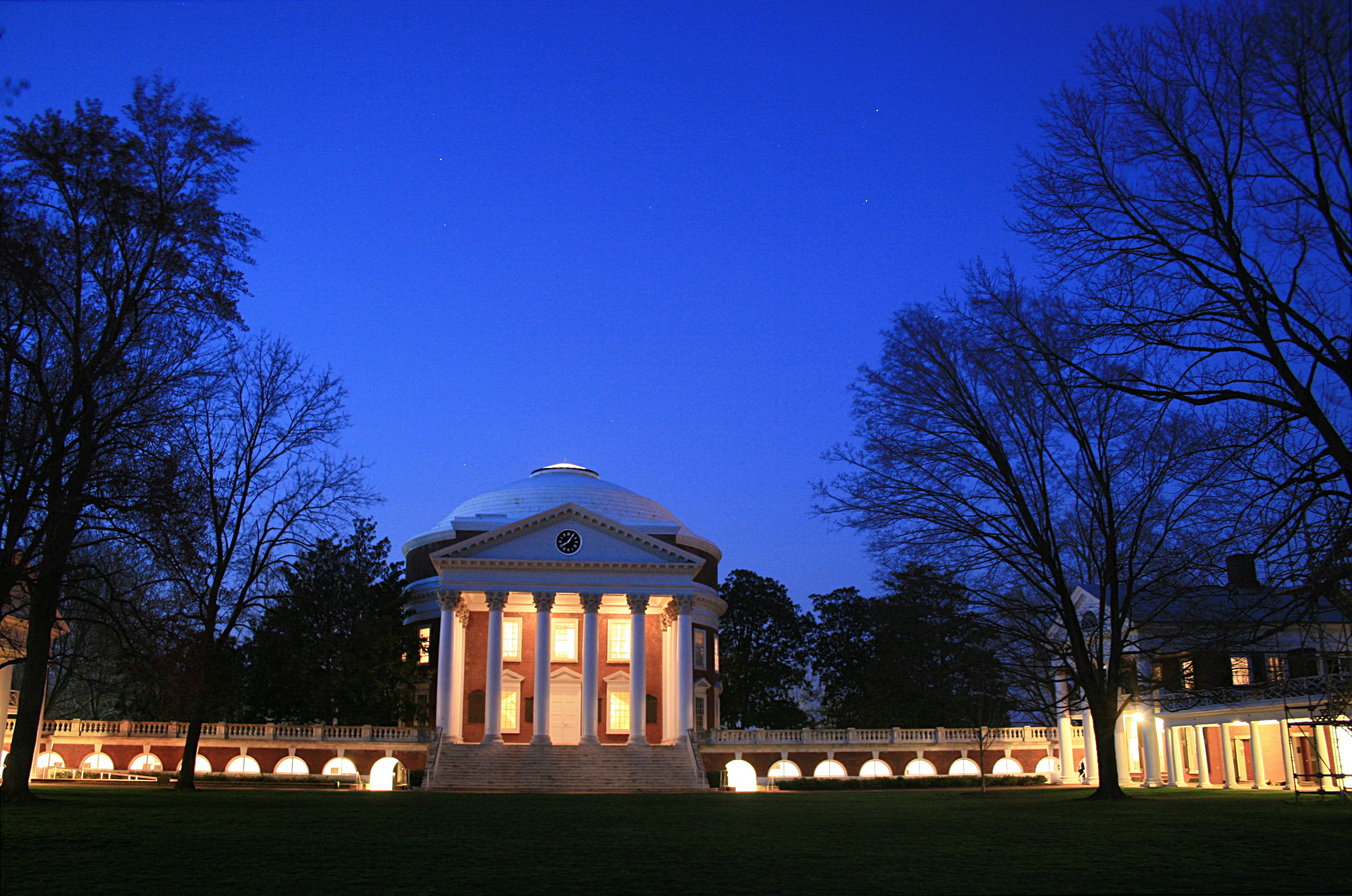 UVA Rotunda at Dusk, taken by Todd Vance March 25, 2007